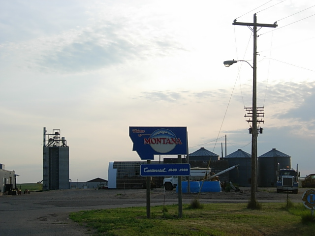 Westby StateLine